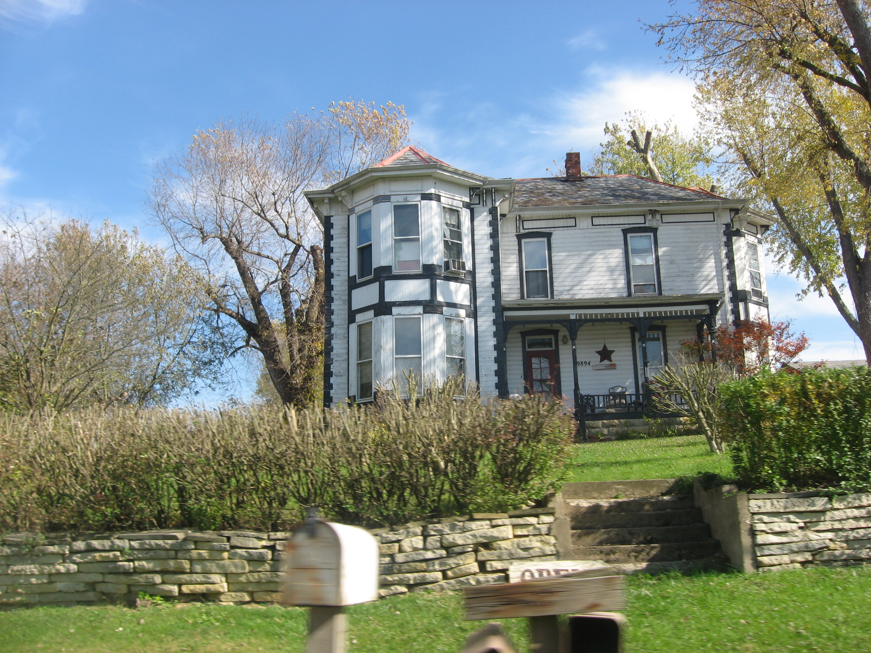 A house located at 9894 N. State Route 41 in Locust Grove, Adams County, Ohio, United States.